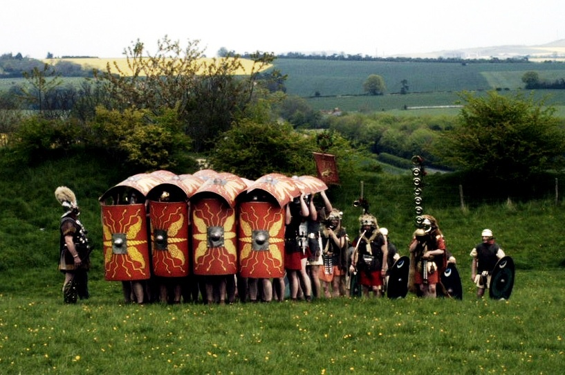 Testudo or tortoise formation